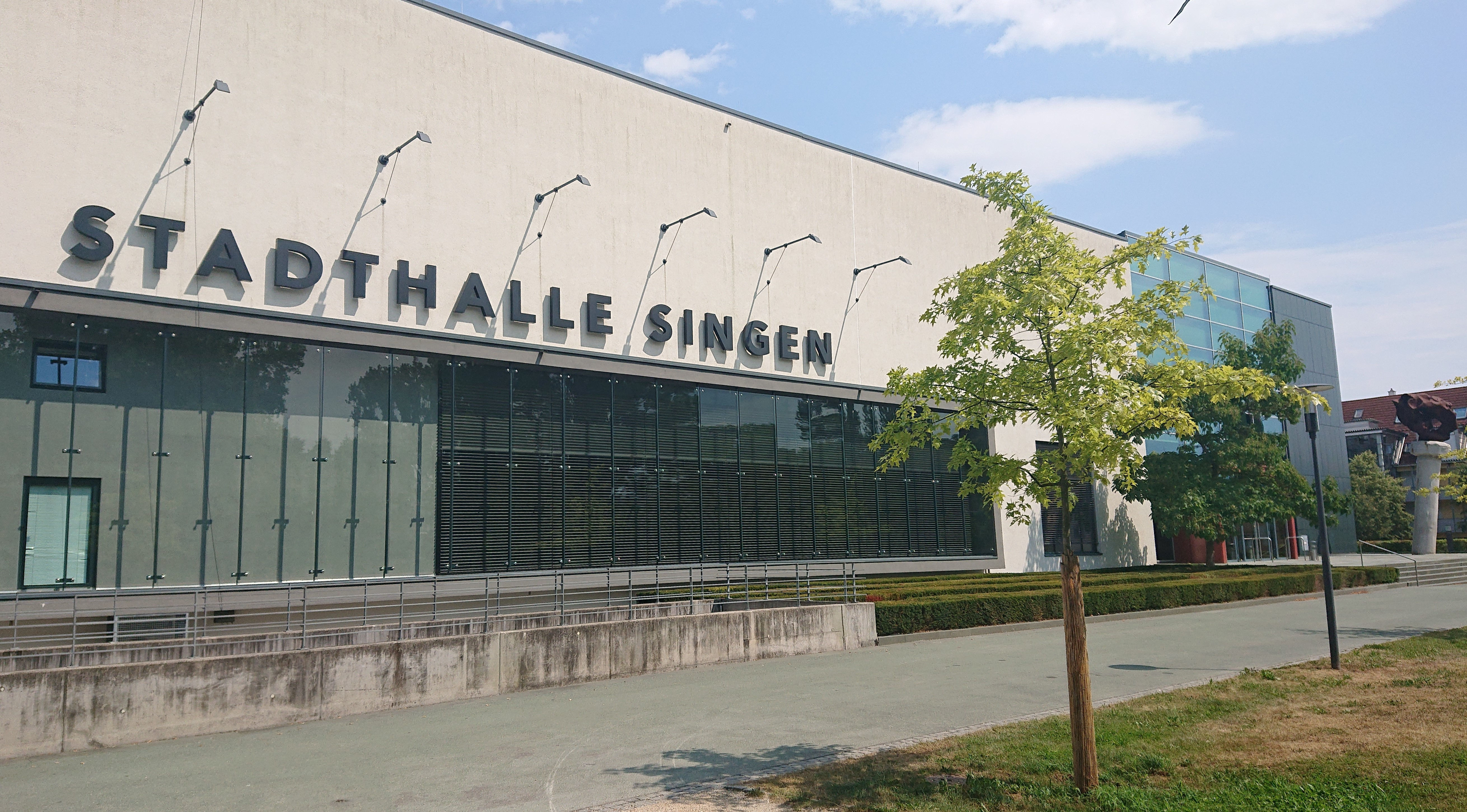 The congress center of Singen, a town in Südbaden, Germany.